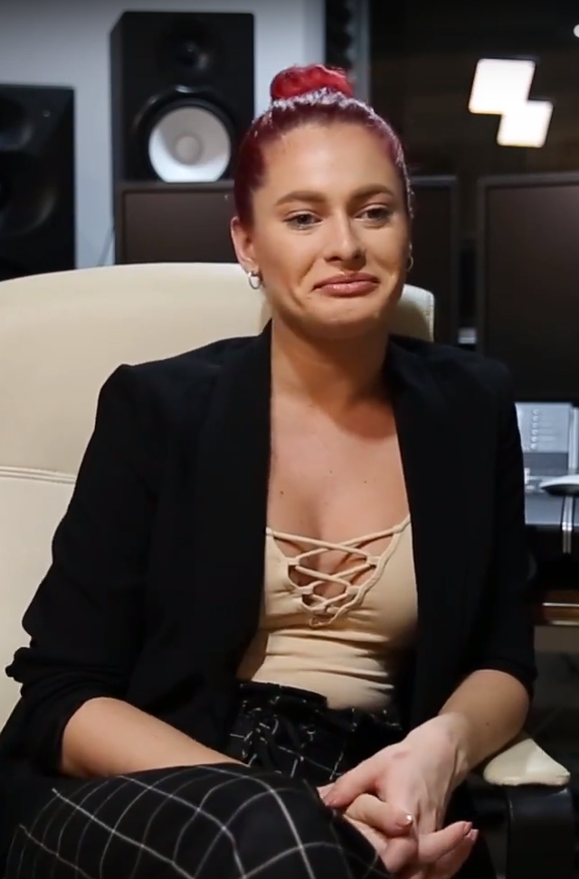 Raluka.